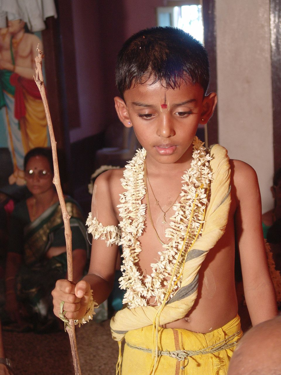 The sacred thread of Hinduism. Upanayana is the "sacred thread ceremony", a rite-of-passage ritual when the sacred thread is received by young boys